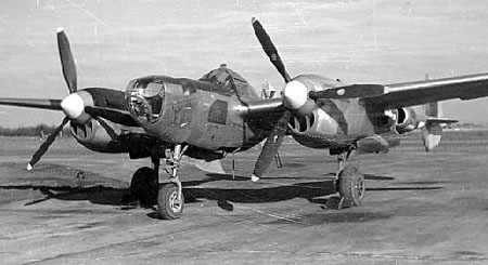 Lockheed P-38 -Droopsnoot